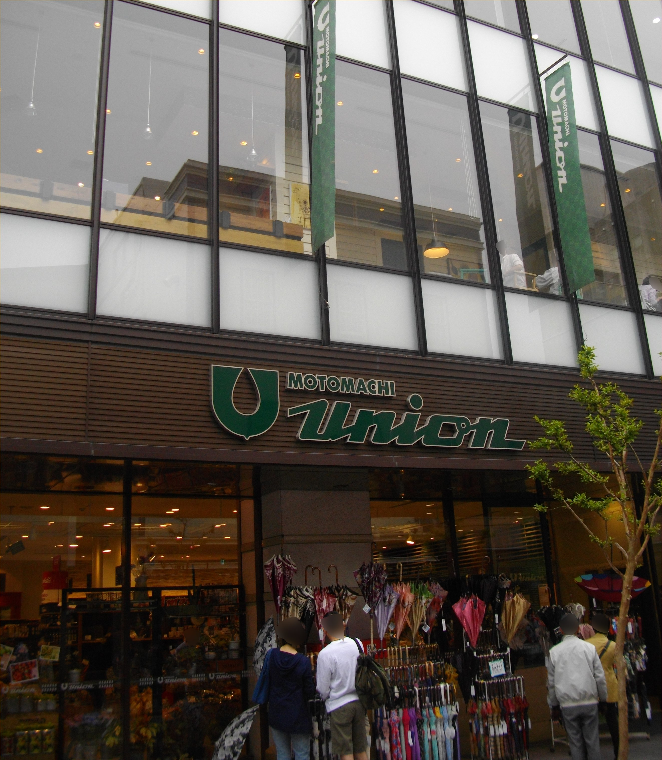 A photo of MOTOMACHI Union(a supermarket in Yokohama.) Motomachi Shop.Motomachi,Naka-ku,Yokohama city,Kanagawa pref.,Japan.